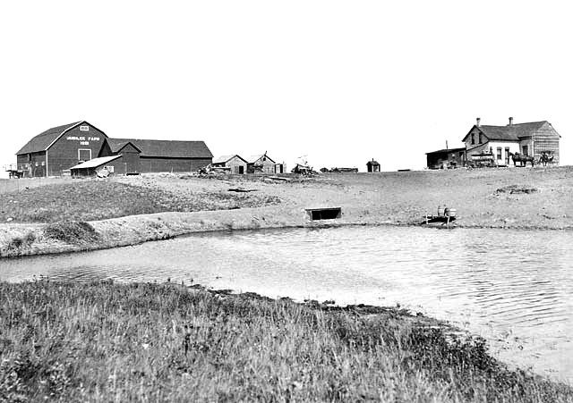 Farm of Mr. Holden near Indian Head, N.W.T. (Sask.), August 1902.